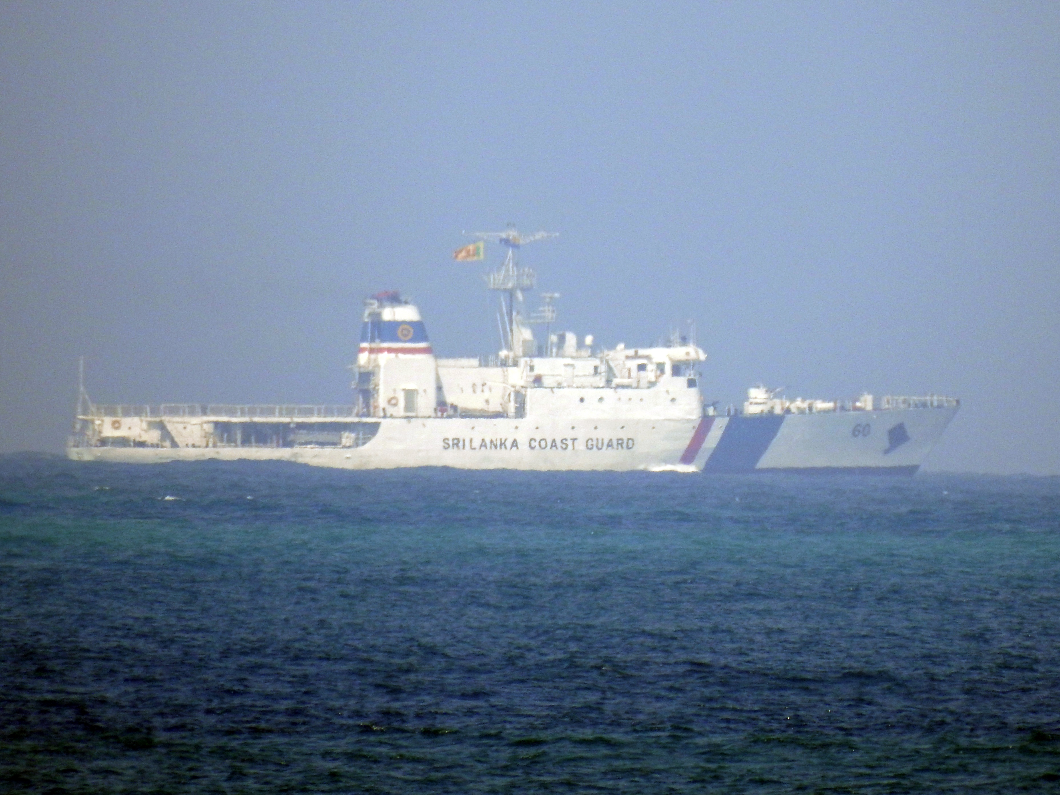 Sri Lanka Coast Guard Ship Suraksha, during Sri Lanka's 70th Independence Day parades, 4th February 2018.